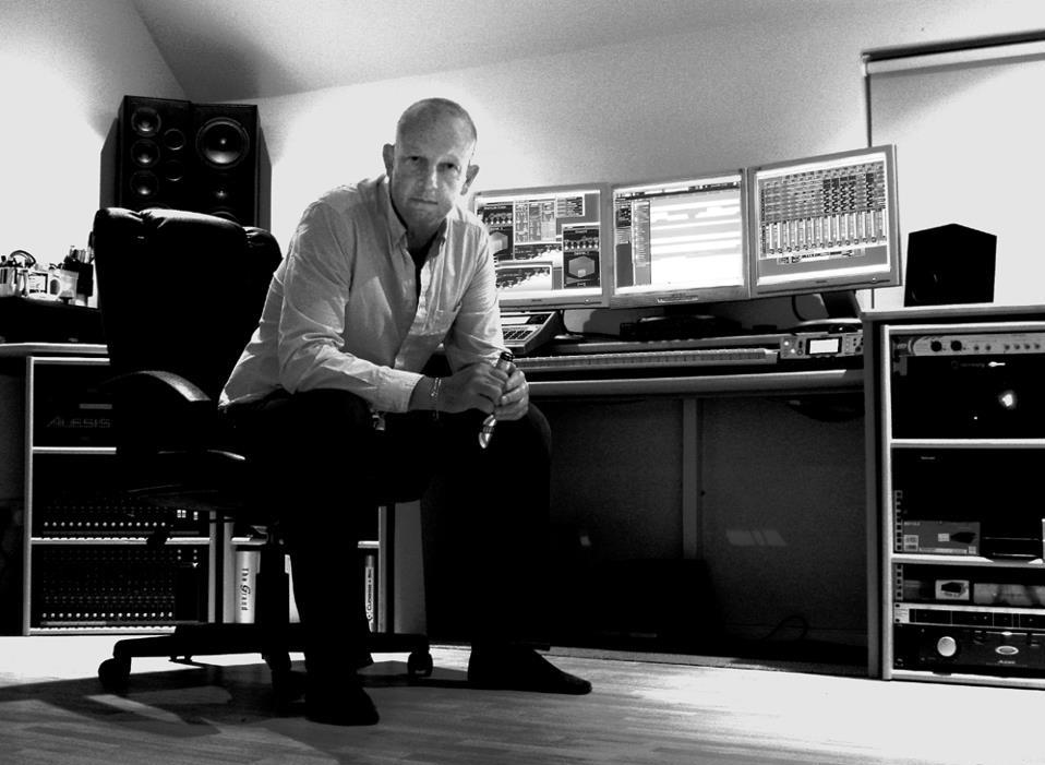 Andrew Giddings in his studio